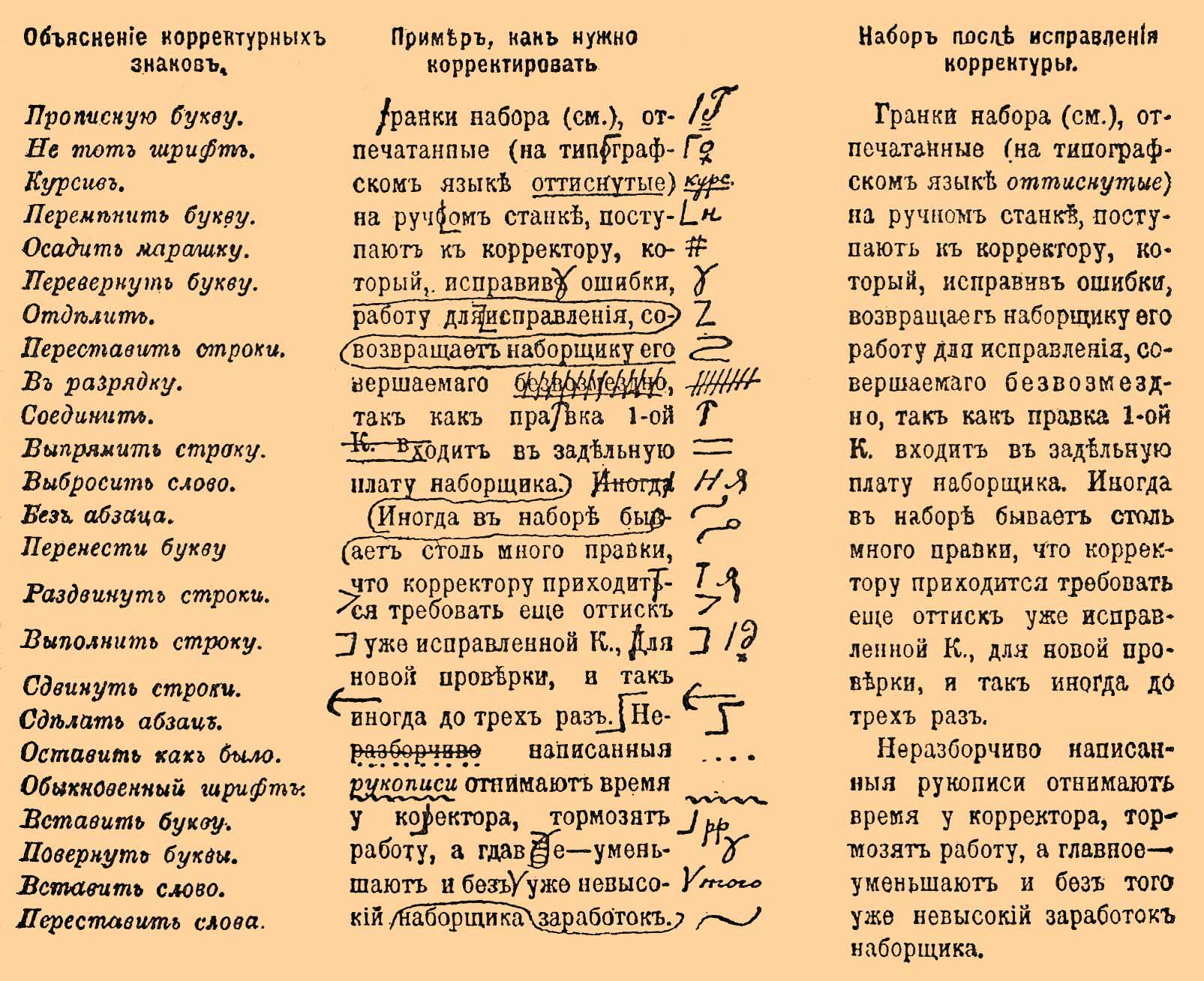 Illustration from Brockhaus and Efron Encyclopedic Dictionary (1890—1907)